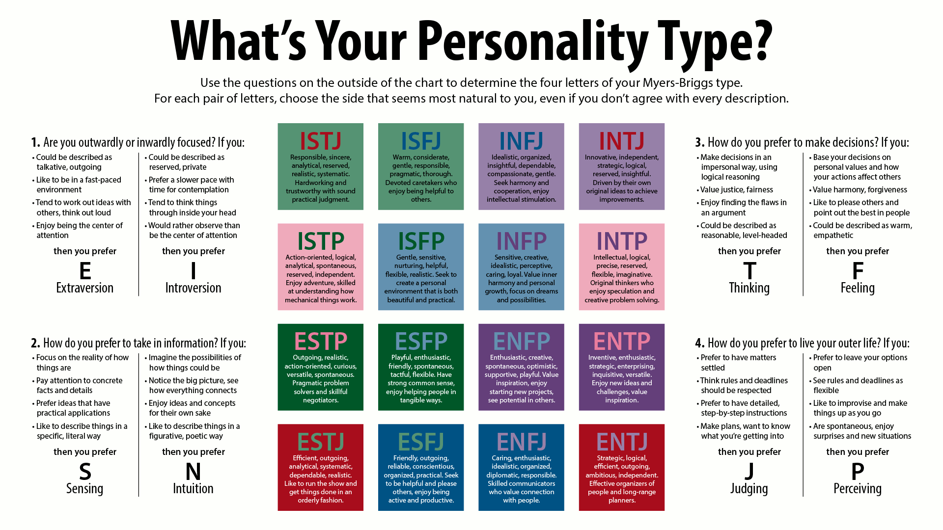 A chart with descriptions of each Myers-Briggs personality type as well as instructions for how to determine one's type.